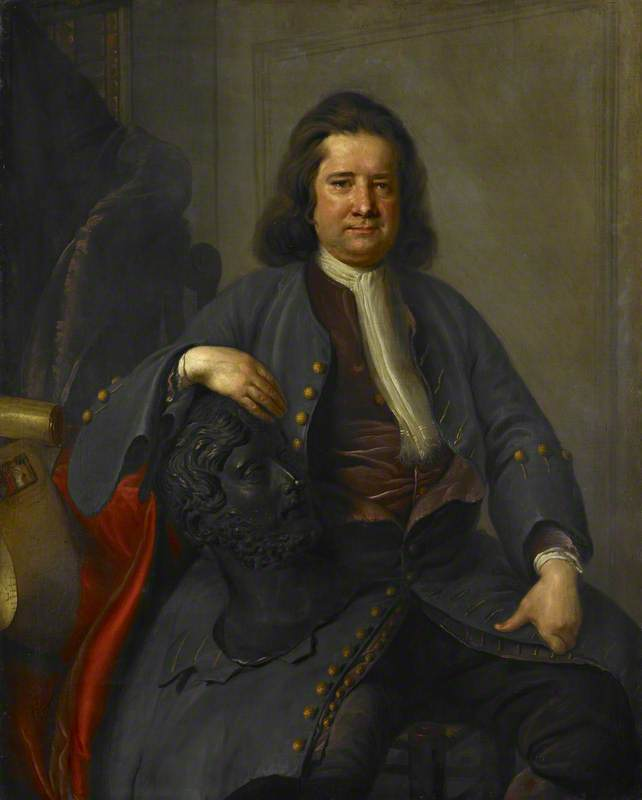 Humfrey Wanley (1672-1726), librarian and paleographer